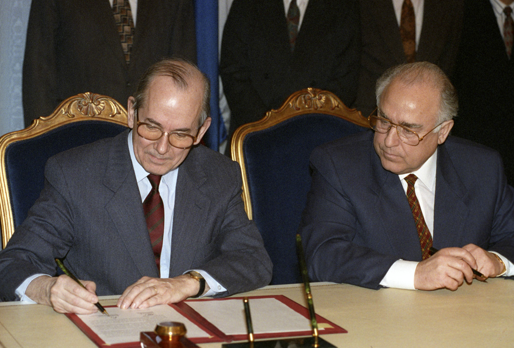 “Michel Camdessus and Viktor Chernomyrdin”. IMF Executive Secretary Michel Camdessus and Prime Minister Viktor Chernomyrdin signing an agreement on a loan to Russia on March 10 in the Kremlin.